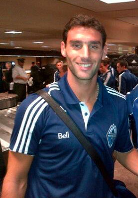 Bonjour with Whitecaps at Phoenix.